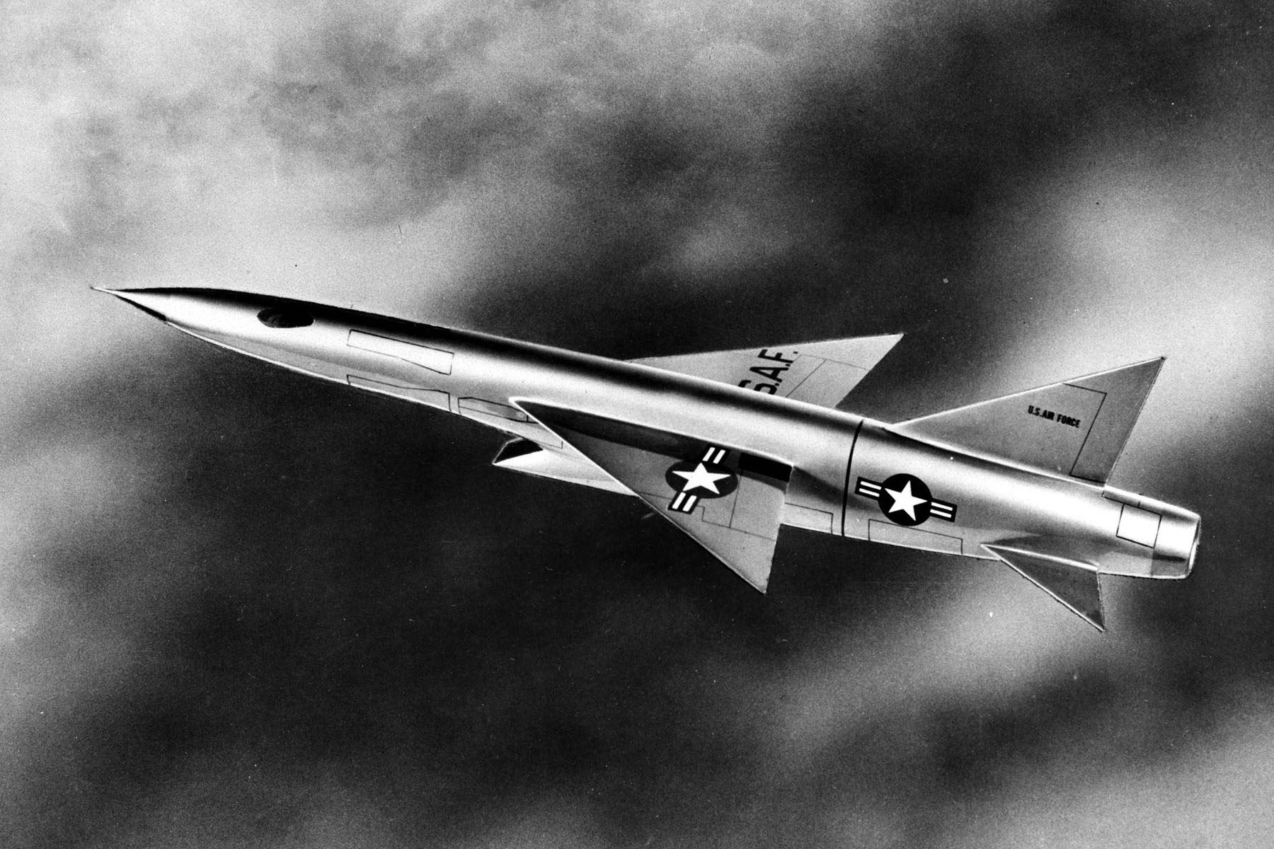 XF-103 Fighter. The dark oval near the nose is one of the two side-view windows. The outlines of the weapons bays can be seen just behind the cockpit area. The air-brakes can be seen at the rear, just in front of the jet nozzle. The line separating the "tiperons" from the rest of the wing is also visible.